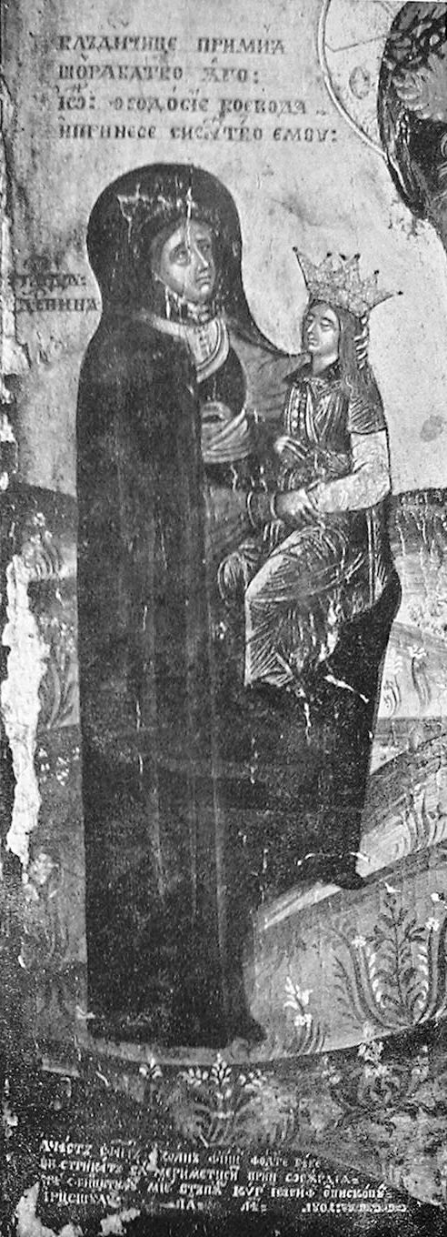 Teodosie (depicted dead) and his mother, Miliţa-Despina in a contemporary icon